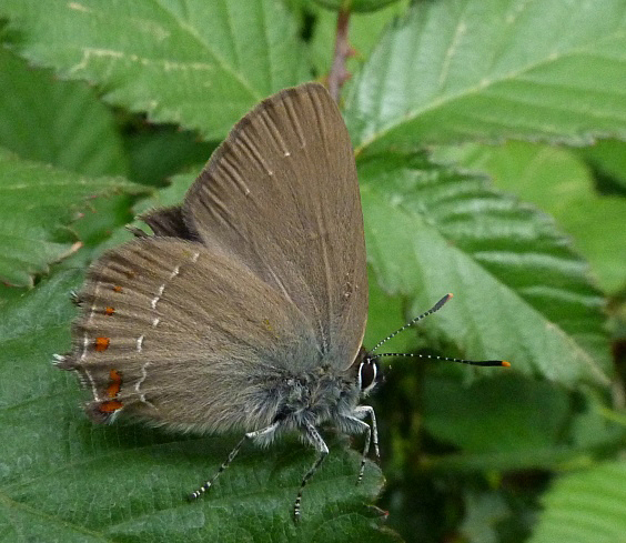 Near Passanant (Catalonia).